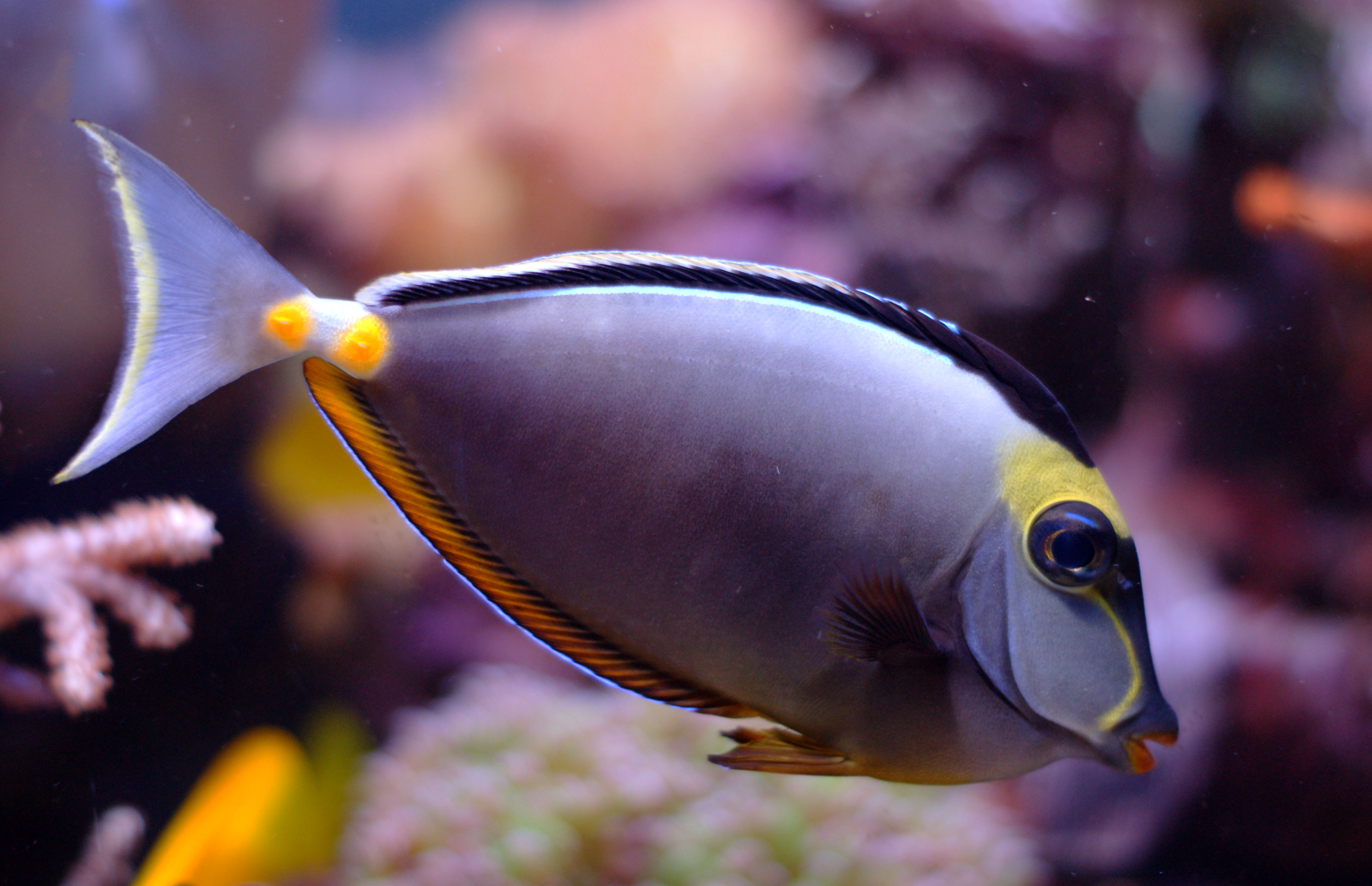 Orangespine Unicornfish